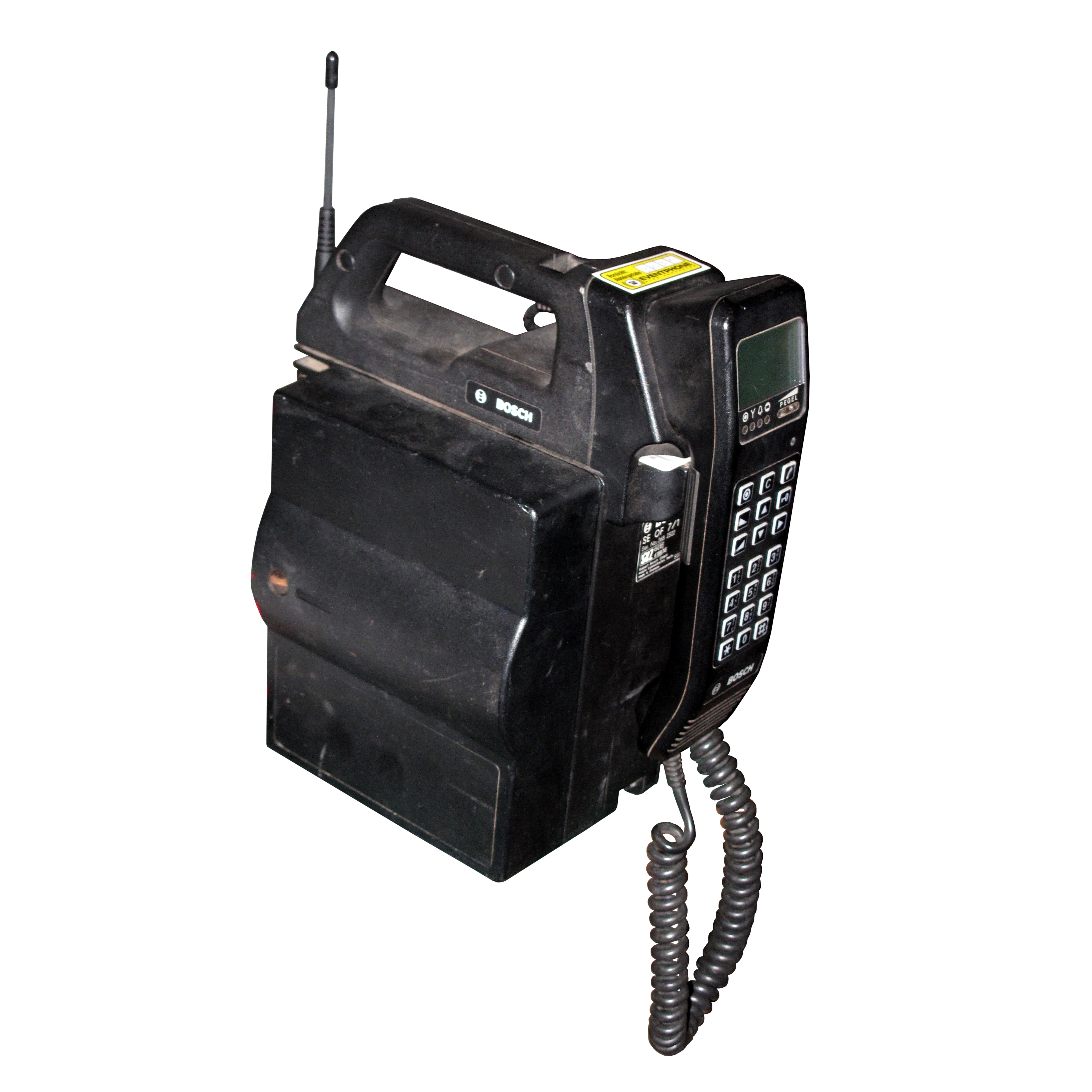 Bosch SE 0F7 transportable telephone at the 33C3.